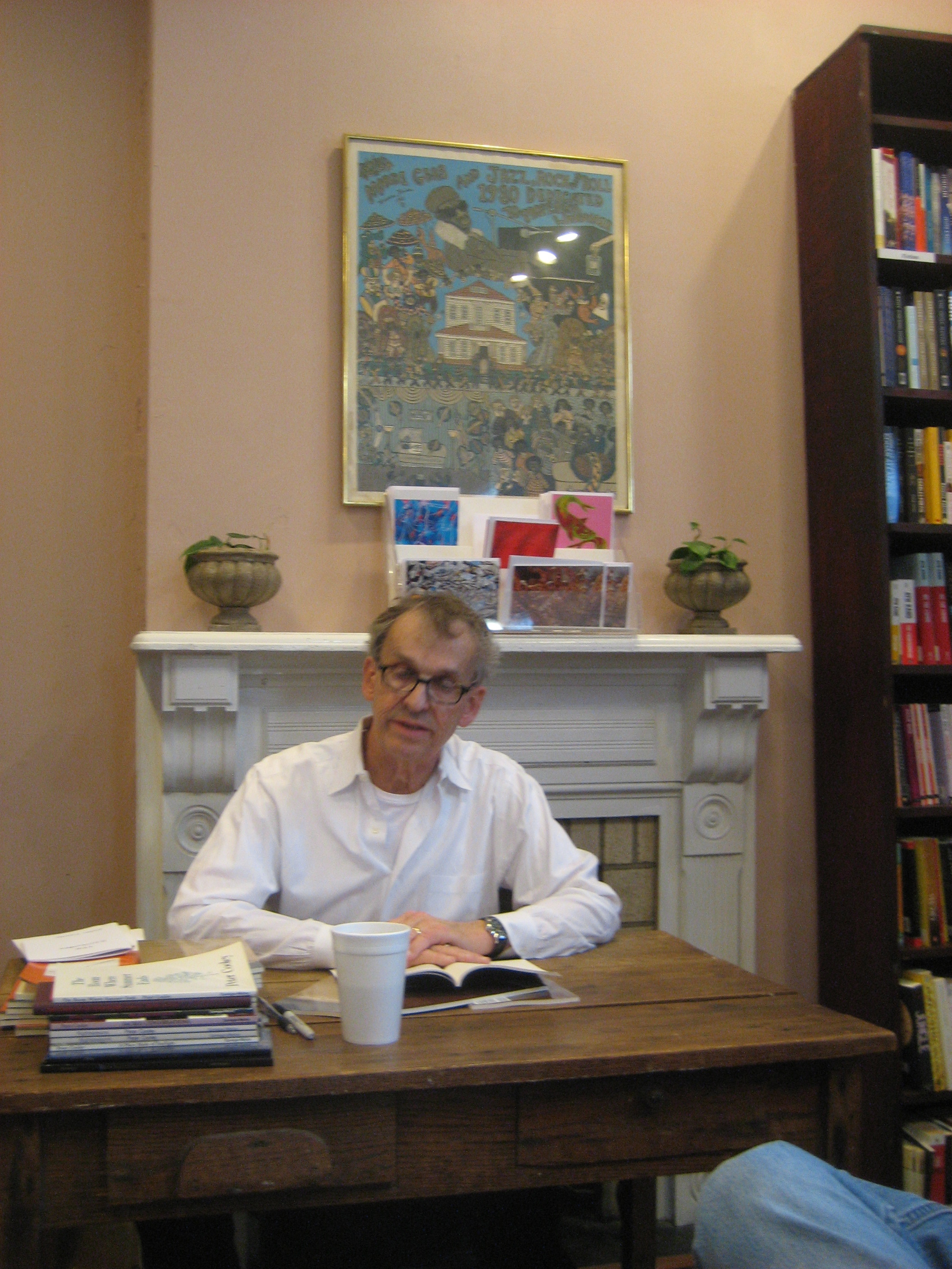 Poet Peter Cooley doing a reading at Maple Street Book Shop, New Orleans.